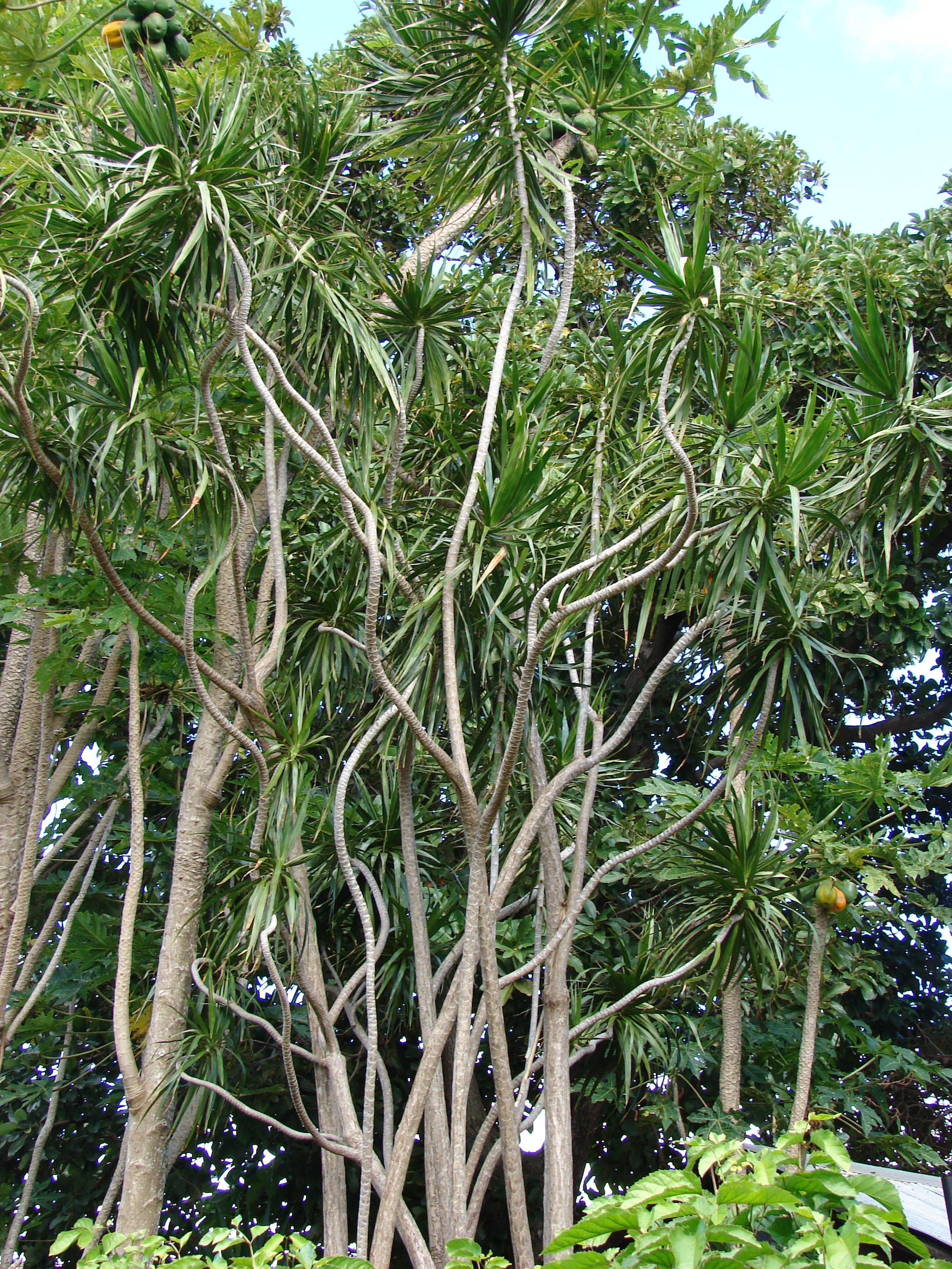 Dracaena marginata (habit). Location: Maui, Makawao